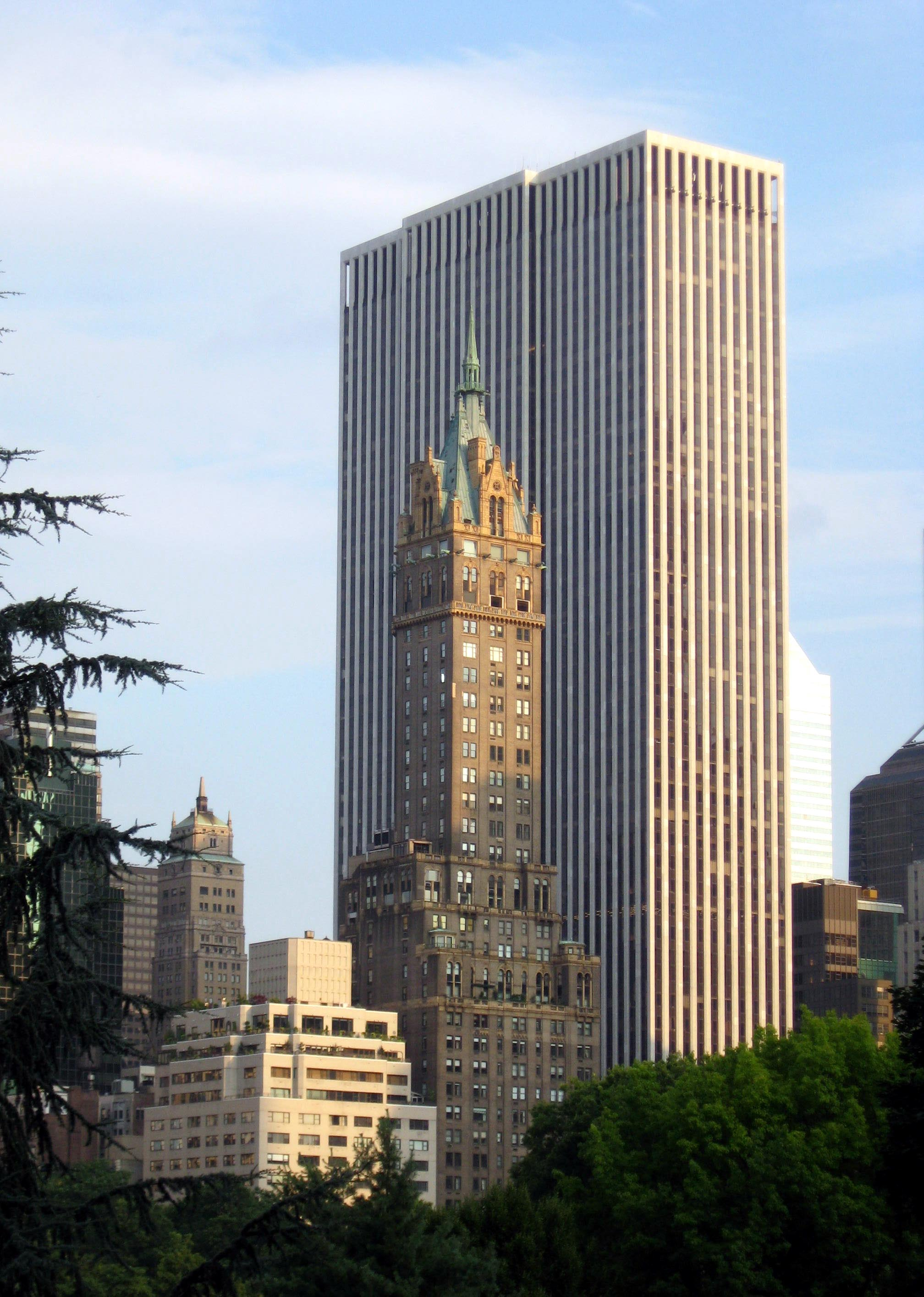 Looking southeast at Sherry Netherlands Hotel and General Motors Building (New York) from Central Park East Drive (approximately C64) south of the carousel. See File:GM bldg rat rock jeh.JPG for a view from Rat Rock further west.